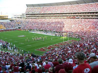 Bryant-Denny Stadium, Tuscaloosa, Alabama. 11/12/05. James Willamor.